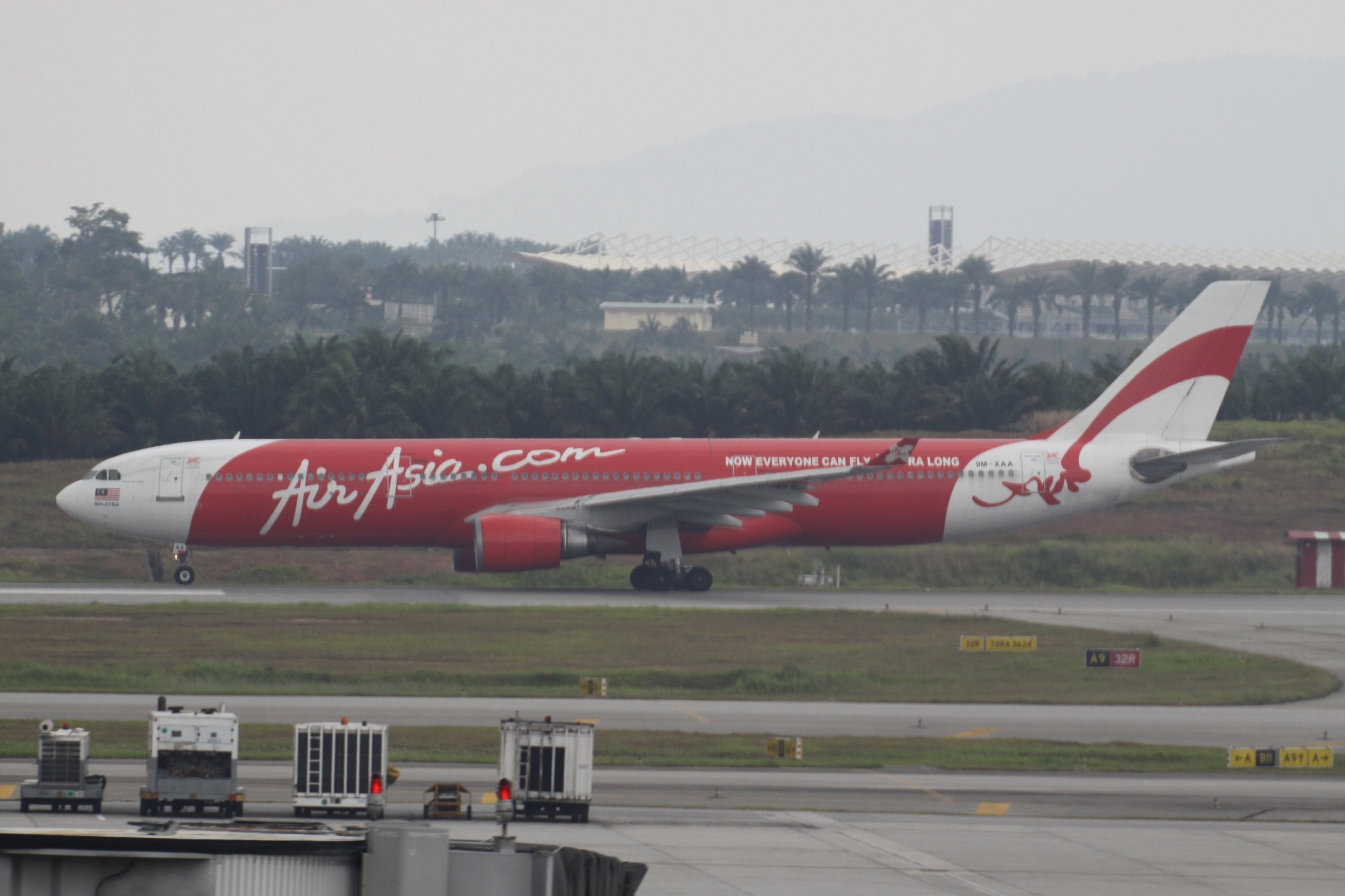 At Kuala Lumpur Sepang